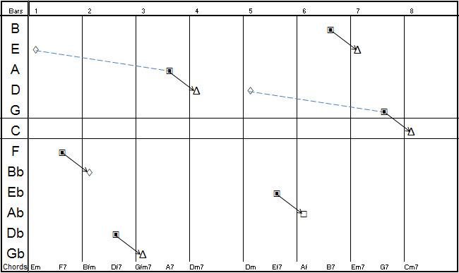 A SeeChord chart of "Countdown" by John Coltrane.